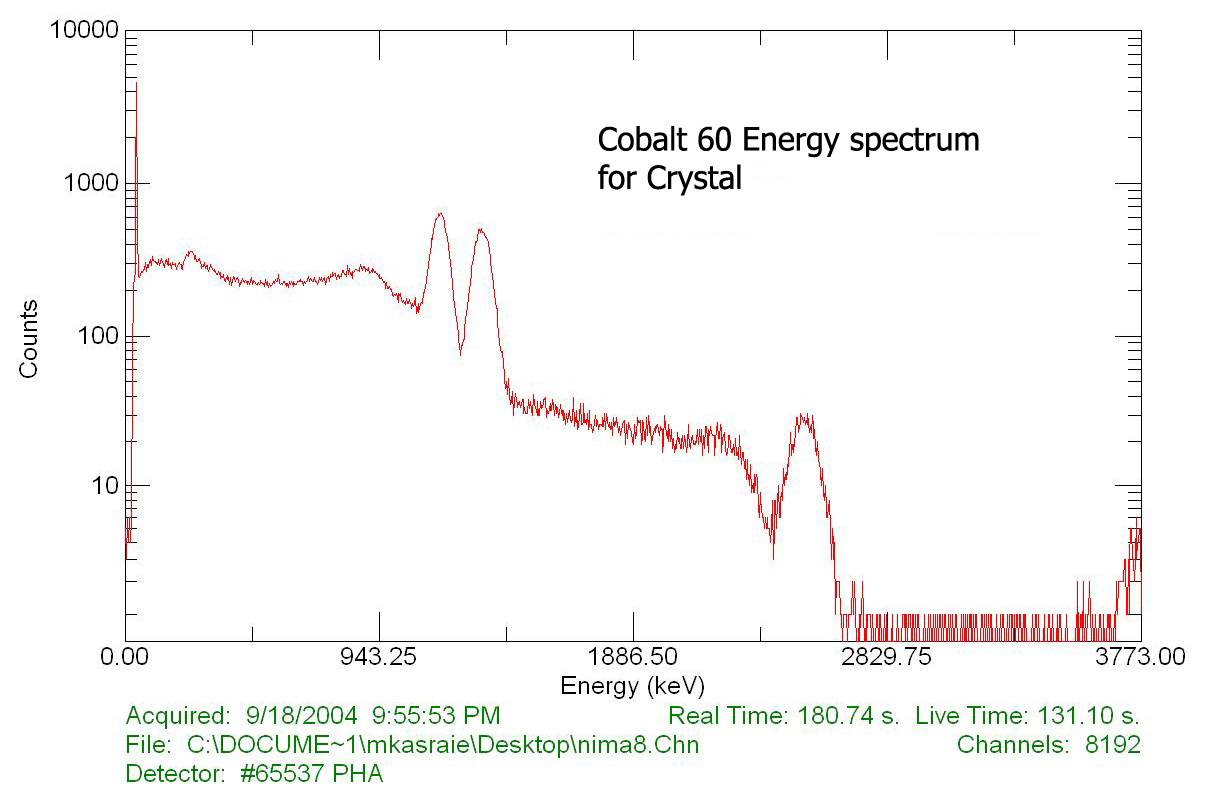 A Cobalt-60 Energy Spectrum.